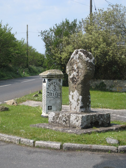 Ancient cross at Crows-An-Wra This wheel-headed cross stands at the junction of the A30 and the minor road which leads to Chapel Carn Brea